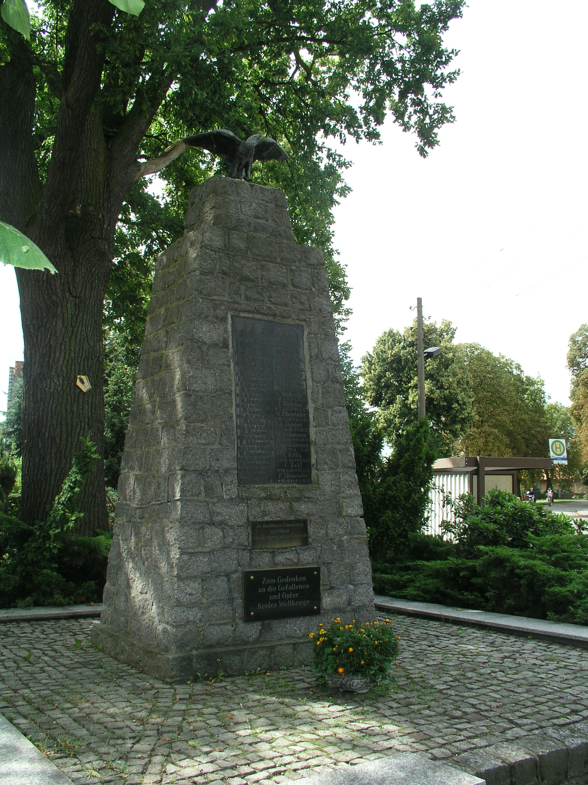 The War Memorial of Alt Zauche, district of Alt Zauche-Wußwerk, Landkreis Dahme-Spreewald, Brandenburg, Germany.